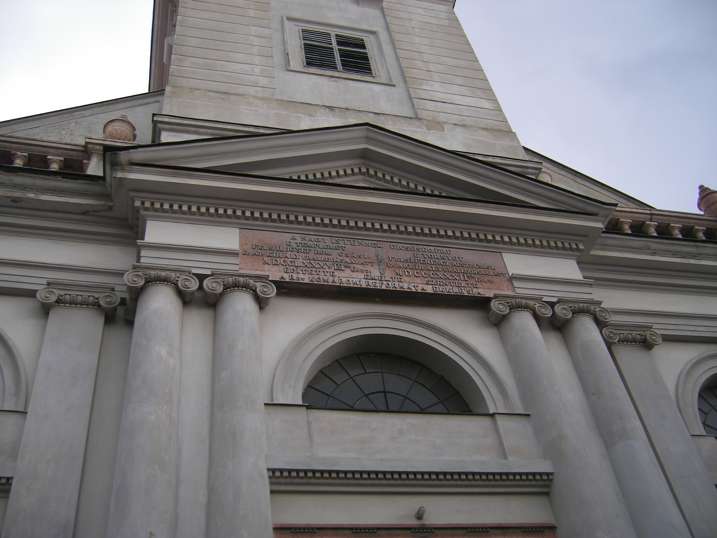 Komárno - frontside of the reformated church